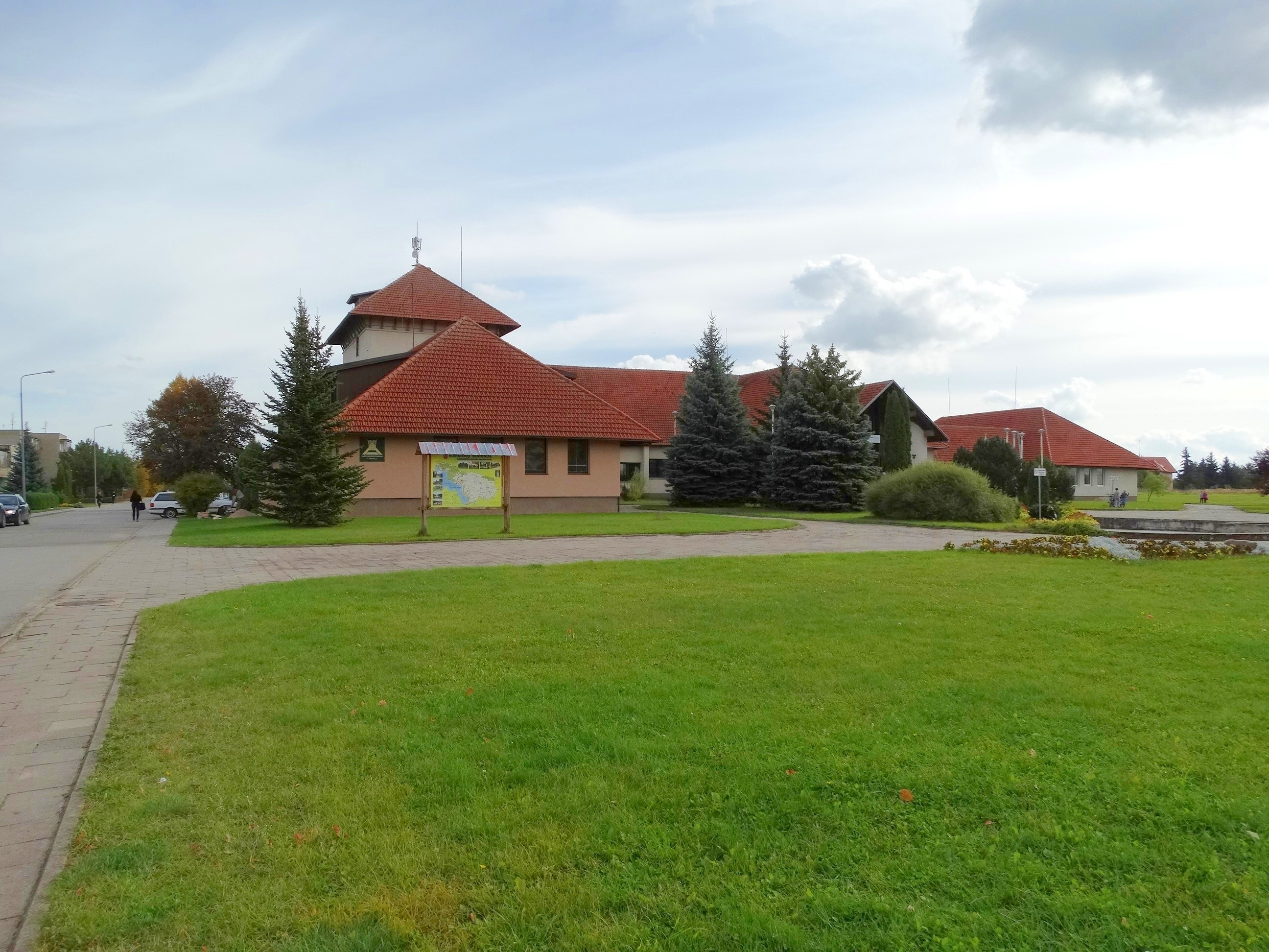 Rumšiškės, Kaišiadorys district, Lithuania